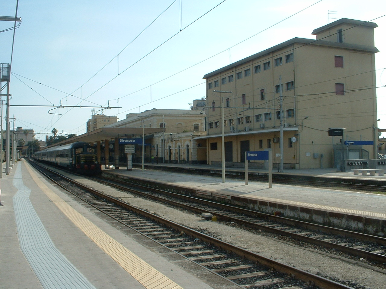 Internal view of Syracuse Railway Station (1871)